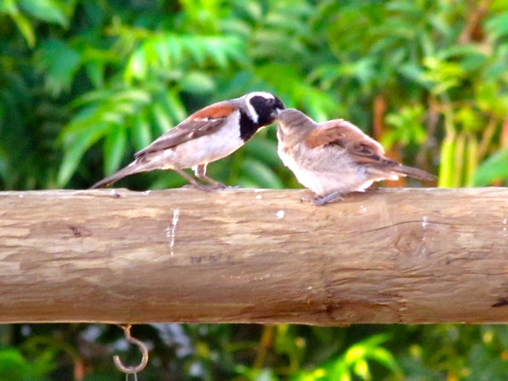 Cape Sparrow (Passer melanurus) chick being fed by a male. Taken from a study using a zoom lens.